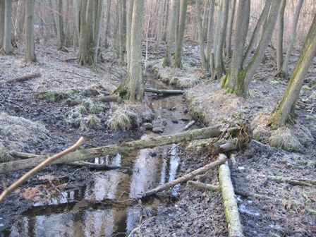 Barnstedter Bach